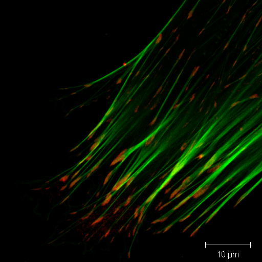 Description Fluorescence double staining of a fibroblast red: Vinculin green: Actin Source: own work Author: Christoph Moehl Date: 07.07.06 Permission: This picture is for free use. You have to cite the author by his full name.